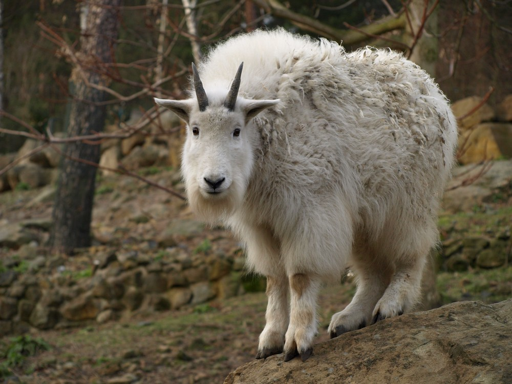 Mountain goat in the zoo in Děčín, Czech Republic.